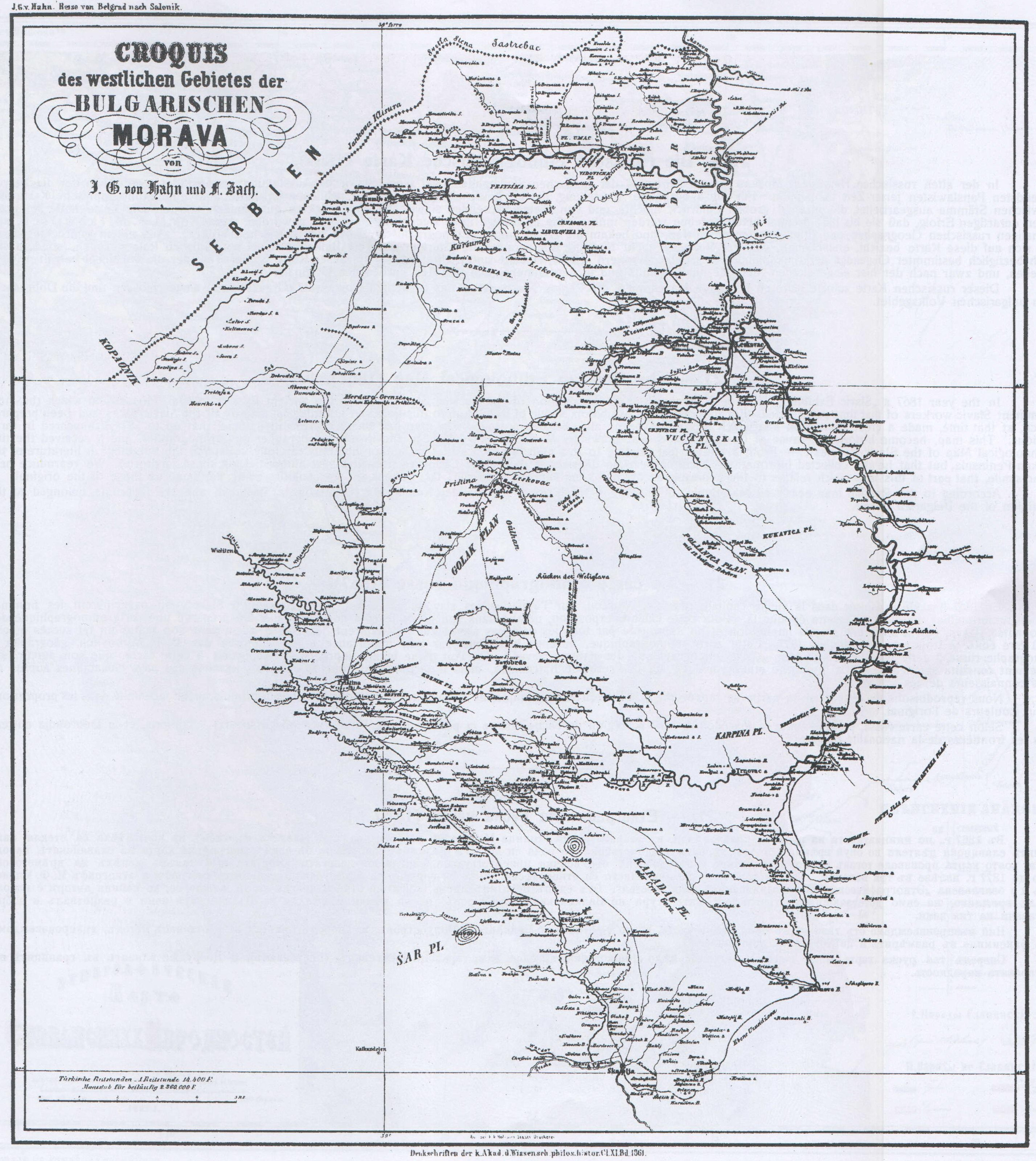 Ethnographic map of Bulgar Morava Valley (South Morava) by Johann Georg von Hahn. Letters a, b and s after the toponyms mean Albanian, Bulgarian, Serbian respectively.